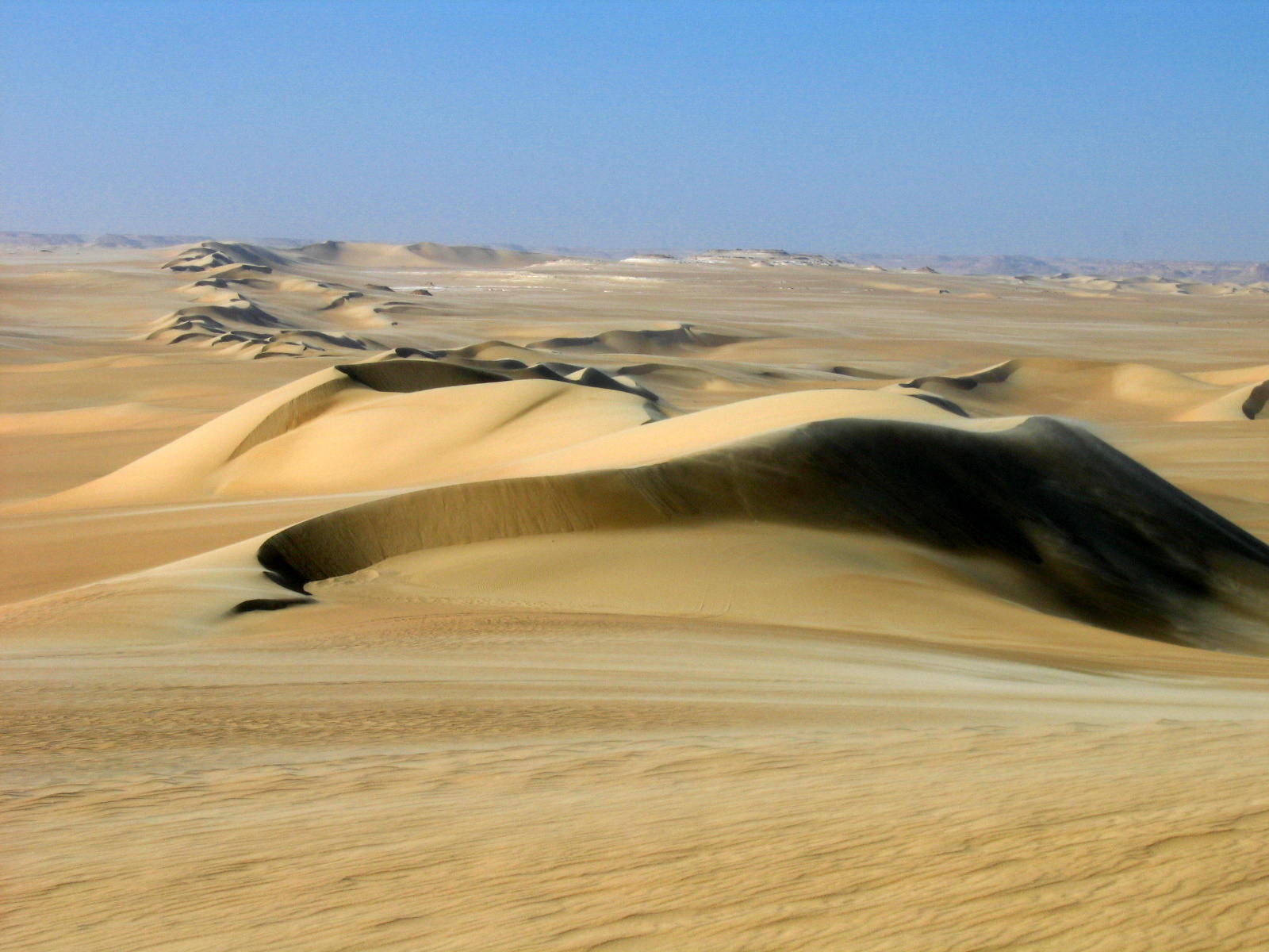 Desert sand dunes around the Egyptian oasis town of Siwa.